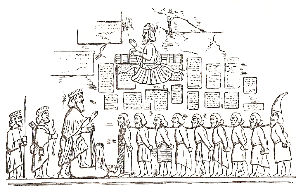 Darius I the Great's inscription.